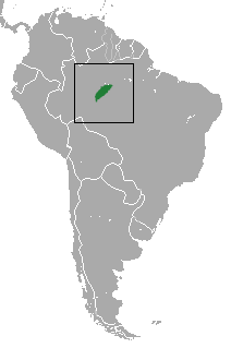 Chestnut-bellied Titi (Callicebus caligatus) range